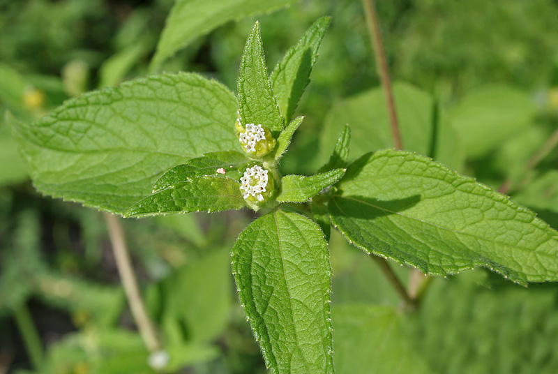 Blainvillea acmella in Hyderabad , India.